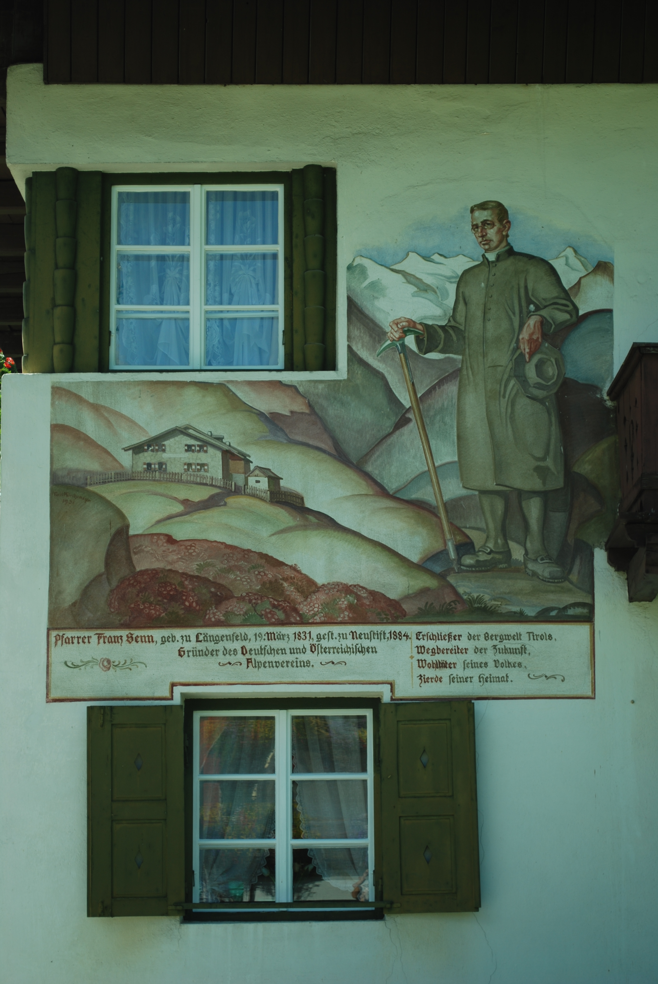 Painting of Franz Senn on house, between Neustift and Milders, Stubaital.